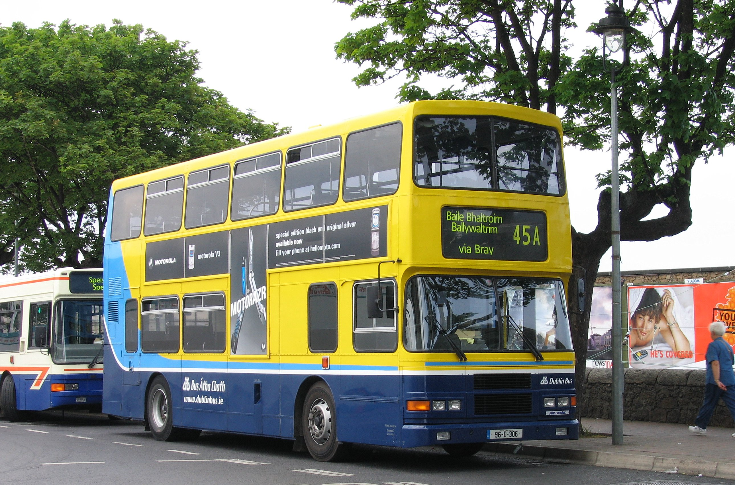 Dublin Bus bus RA306 (reg. 96 D 306), a 1996 RA-class Alexander (Belfast) bodied Volvo Olympian double-decker, pictured outside Dún Laoghaire railway station operating route 45A. Withdrawn in August 2008, it was exported to the UK with Anglian Bus, who re-registered it with the UK plate P478 SWC.